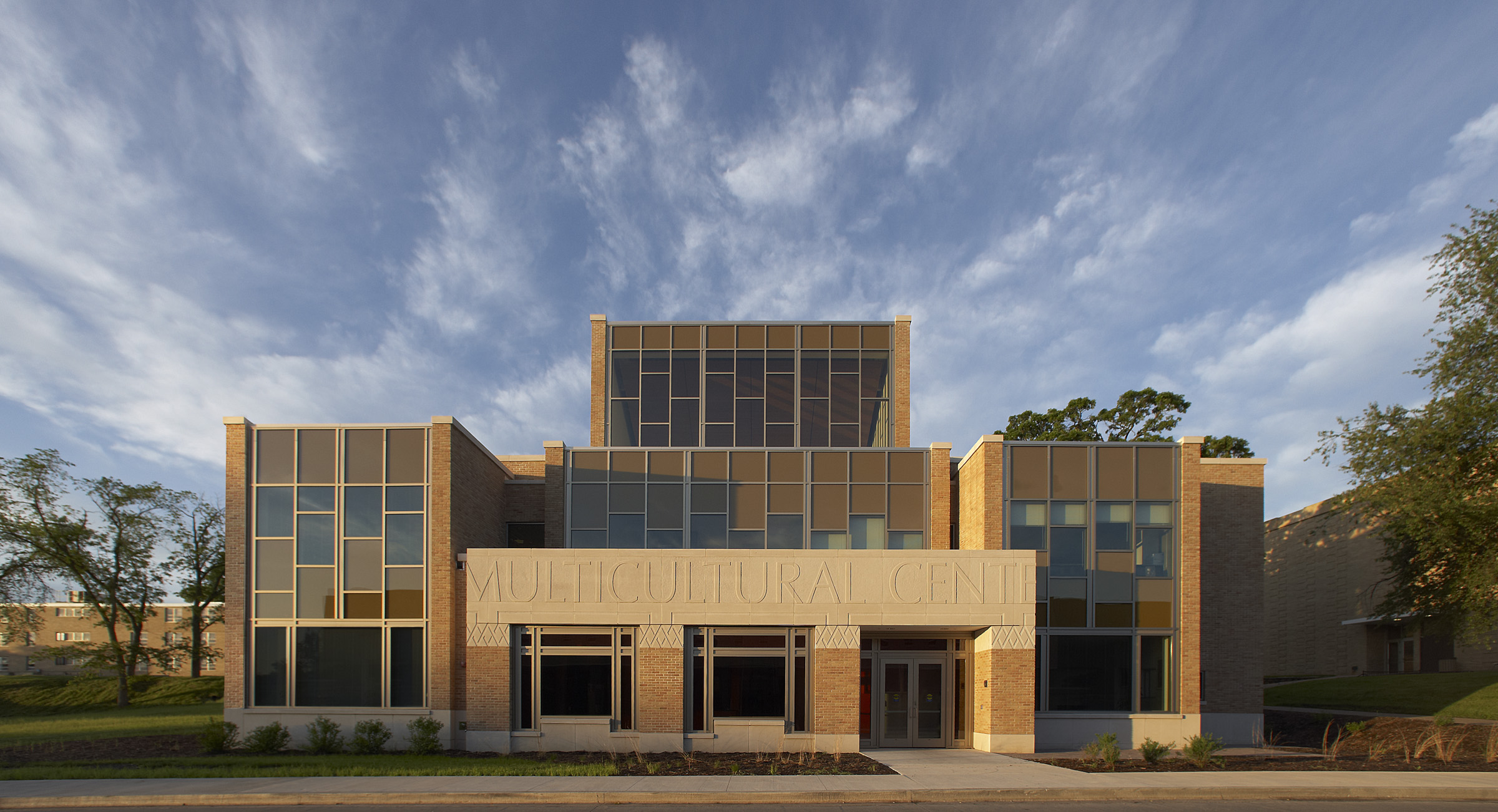 Exterior view of the new Western Illinois University Multicultural Center.